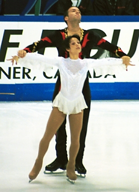 Sarah Abitbol and Stephane Bernadis compete their long program at the 2001 Grand Prix Final in Kitchener, Ontario. Photo taken by User:Vesperholly.